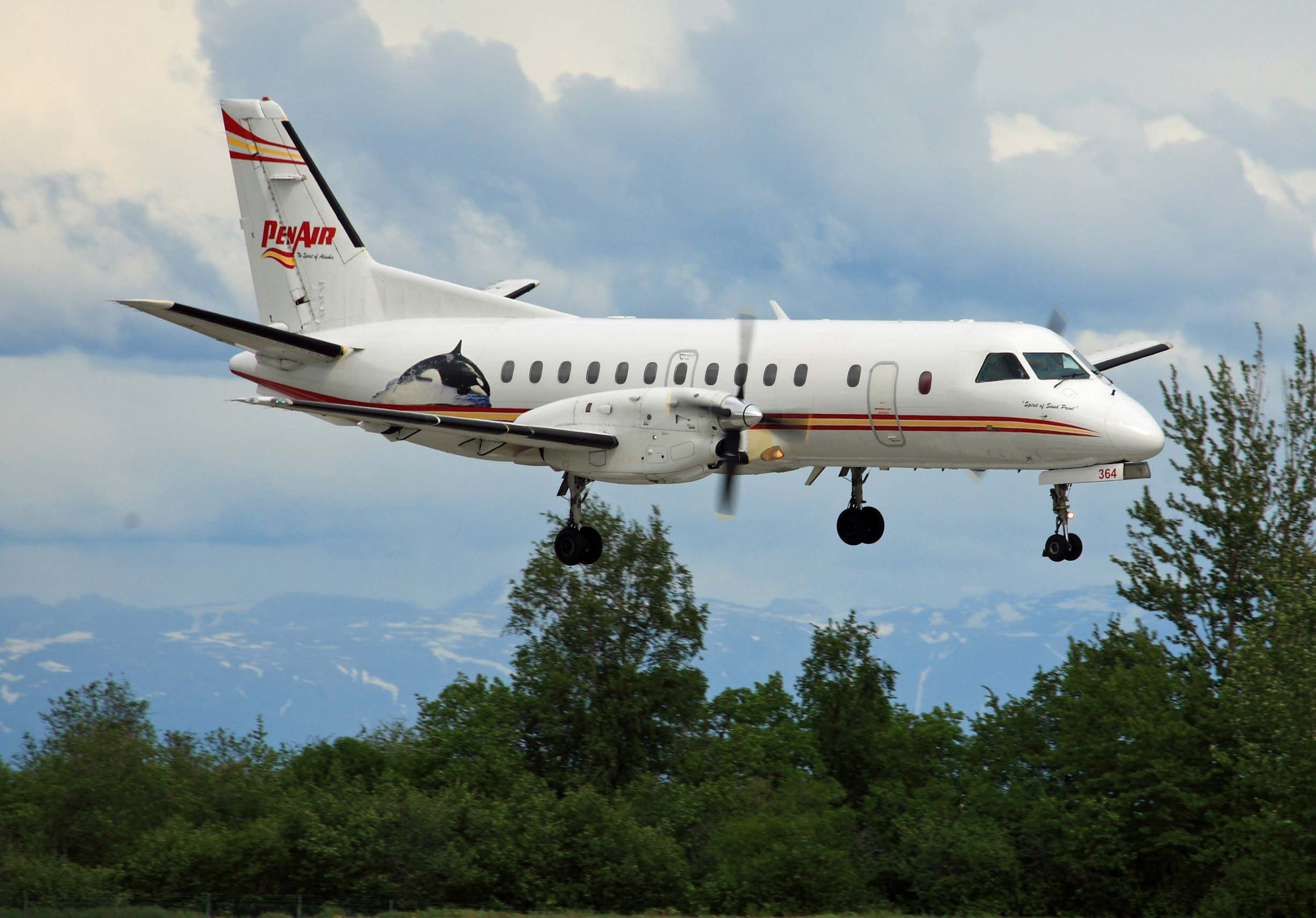 A cloudy, cool day in June 2011 at Anchorage's Ted Stevens International Airport.